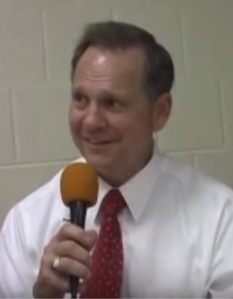 Former Chief Justice of the Alabama Supreme Court Roy Moore.